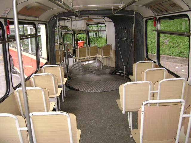 MAN SG 220 Avtomontaža bus interior in Rijeka, Croatia.